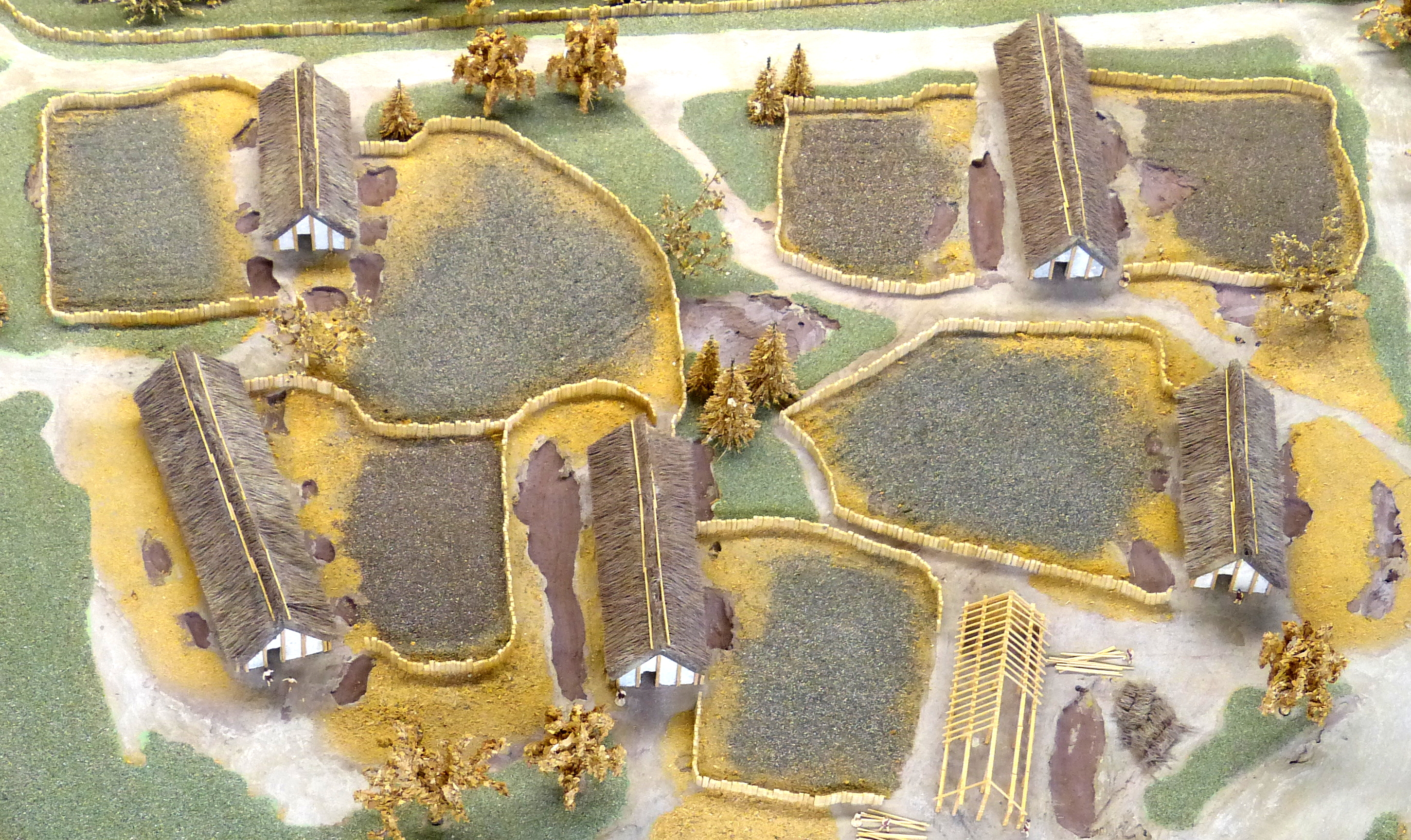 Kelheim ( Lower Bavaria ). Archaeological Museum: Reconstruction of a settlement of the Linear pottery culture ( 5th millenium BC ) from Hienheim